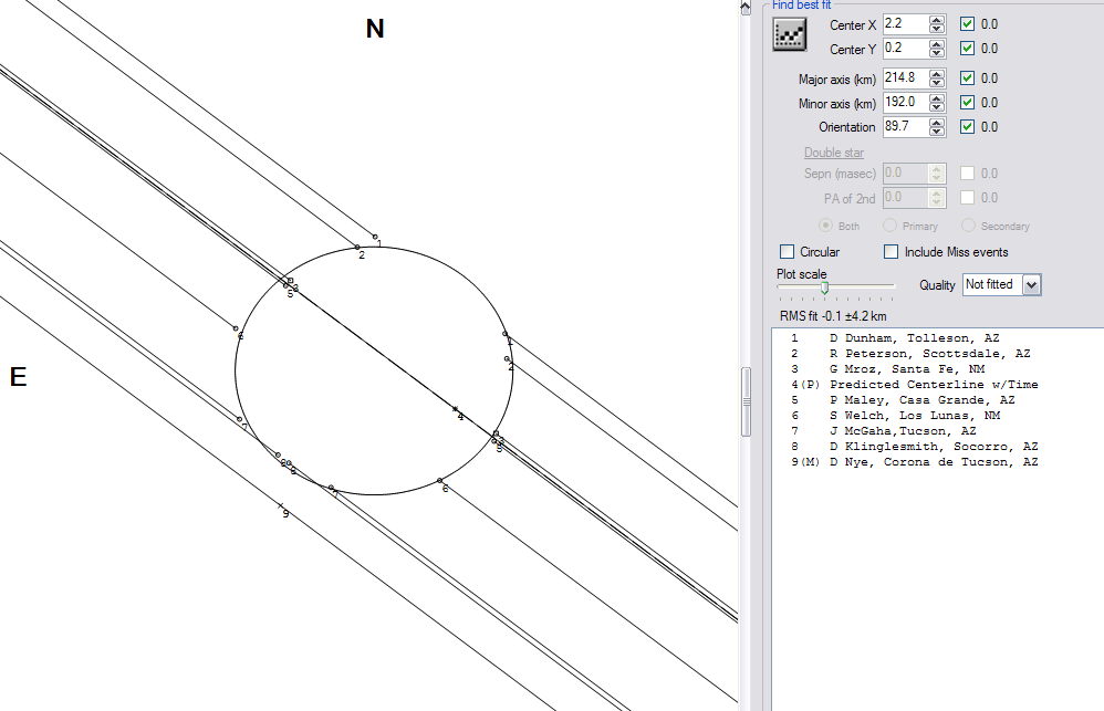 Shape of asteroid 13 Egeria as viewed from Earth on Jan 22, 2008 based on timed observations of the asteroid from different locations as it occulted a star. Observations by D Dunham, R Peterson, G Mroz, P Maley/D Mello, S Welch, J McGaha, D Klinglesmith, and D Nye. The visualization was produced using the OCCULT4 visualization program written by Dave Herald of Canberra, Australia.